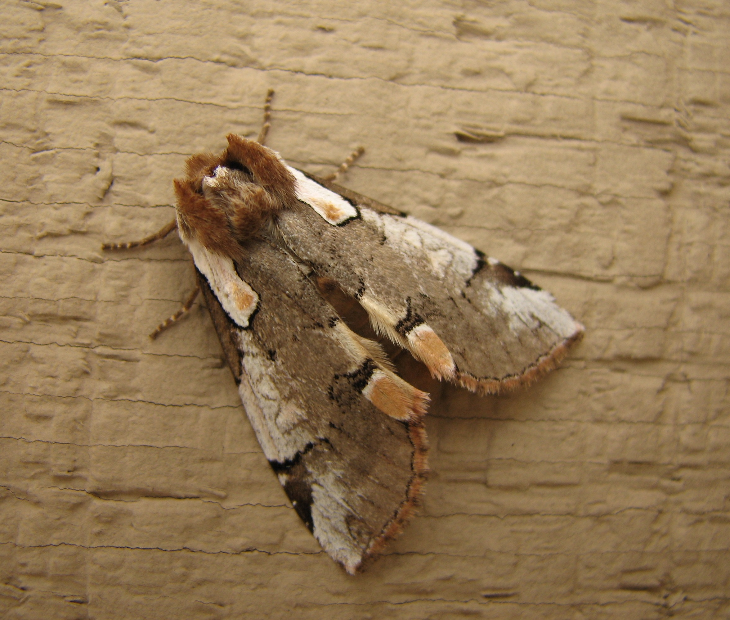 Euthyatira lorata Camp Cascade, Marion County, Oregon, USA. bugguide